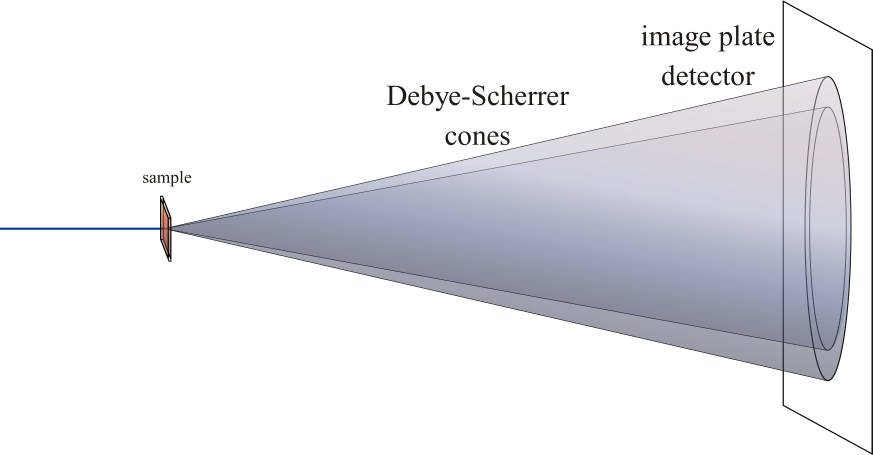 Two-dimensional powder diffraction setup for high energy X-rays. HEX-Rays entering from the left are diffracted in forward direction at the sample and registered by a 2D detector such as an image plate. Author: Klaus-Dieter Liss Reference: K.-D. Liss, A. Bartels, A. Schreyer, H. Clemens, "High energy X-rays: A tool for advanced bulk investigations in materials science and physics" Textures and Microstructures, (2003). 35 (3/4): p. 219-252.